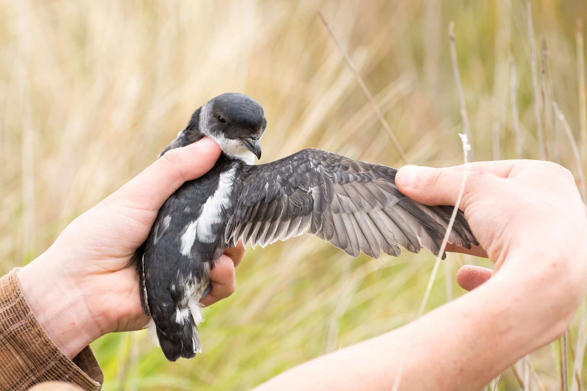 Showing upper wing with distinctive white scapula and grey-white crescent on side of head. Held by researcher Johannes Fischer on Sealer's Bay beach, Codfish Island / Whenua Hou, New Zealand.